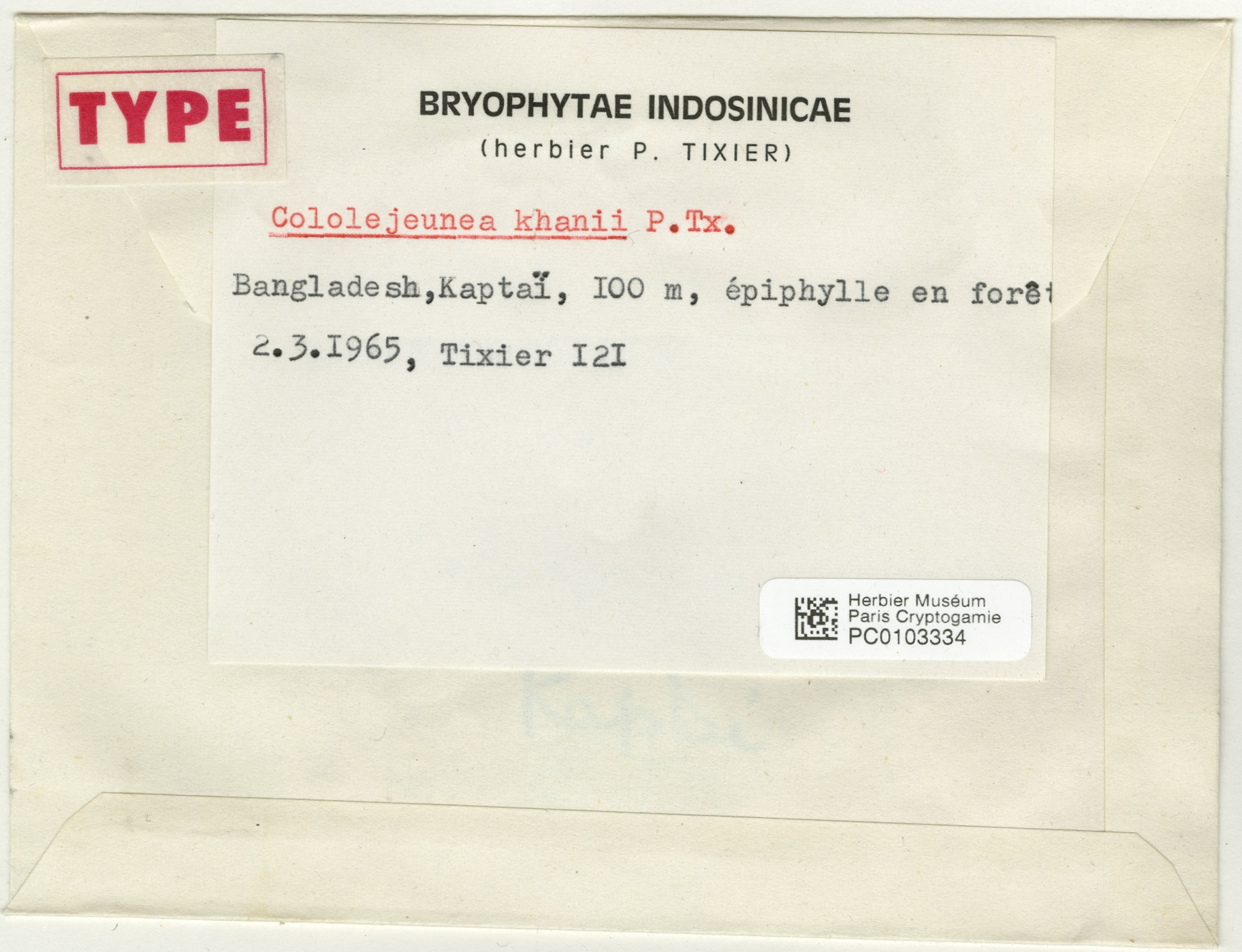 Cololejeunea khanii, holotype index card at Muséum national d’histoire naturelle, Paris